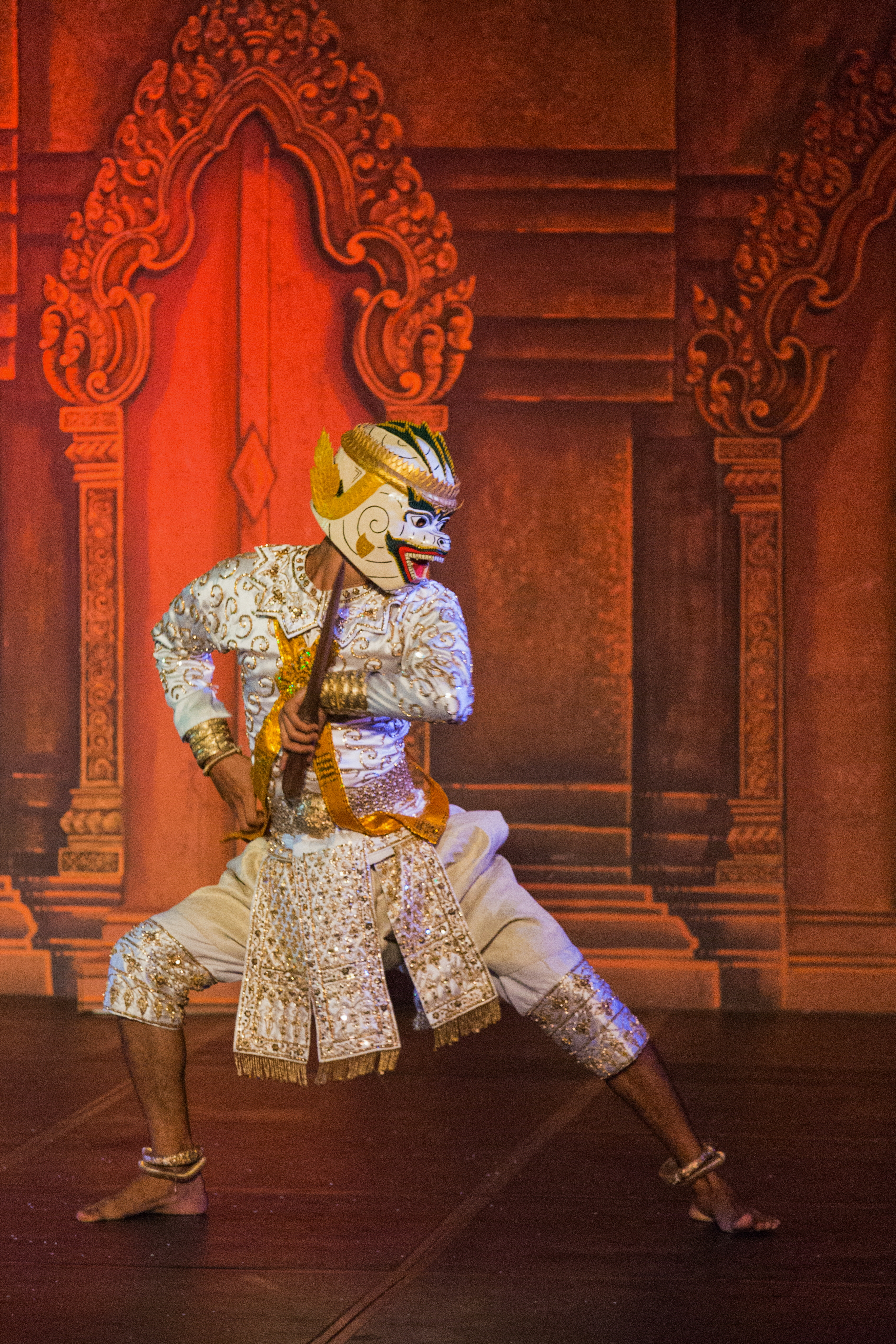 Traditional Cambodian Dance Show - Golden Mermaid Dance. Phnom Penh, Cambodia.